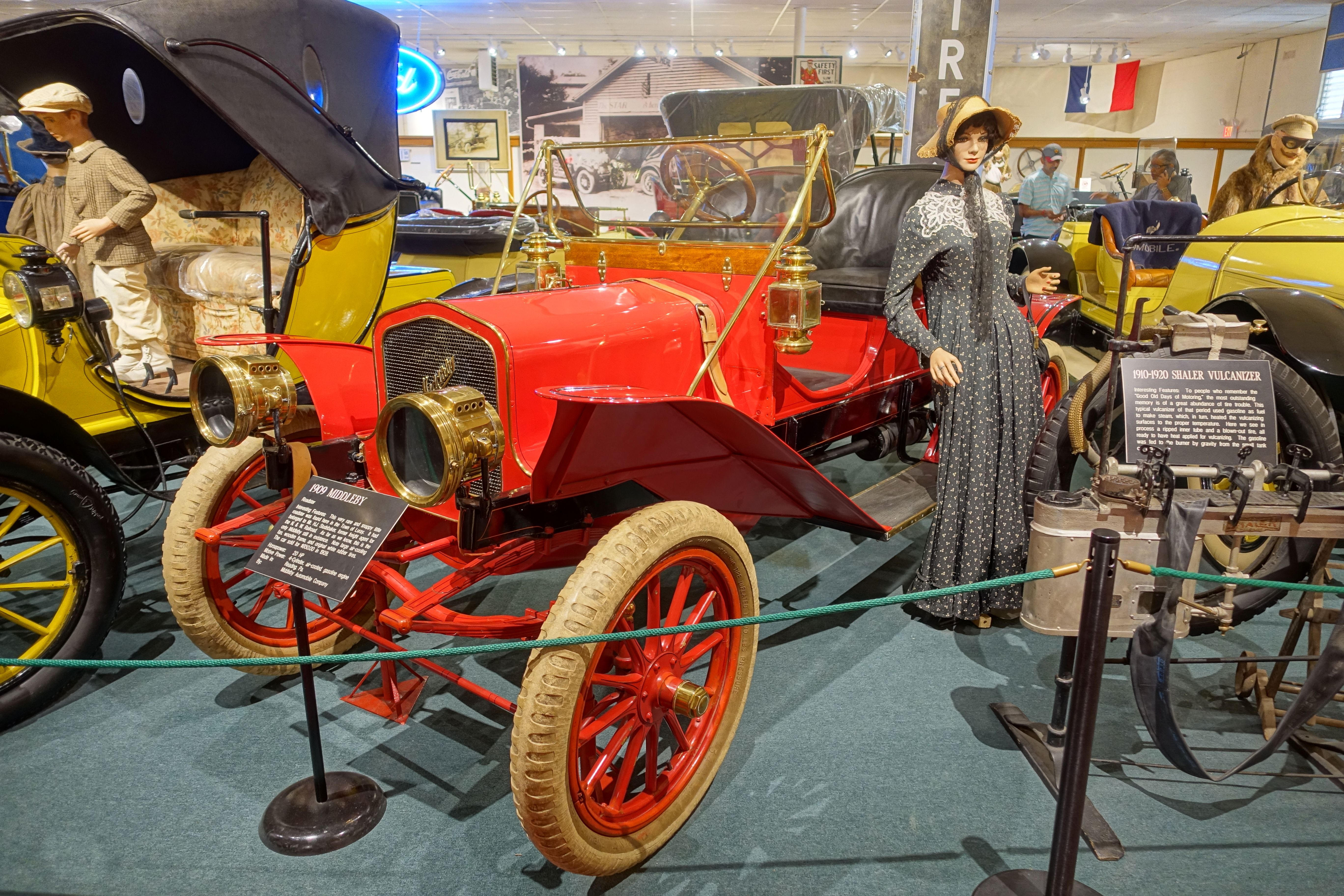 Exhibit in the in the Luray Caverns Car and Carriage Museum, Lurary, Virginia, USA.